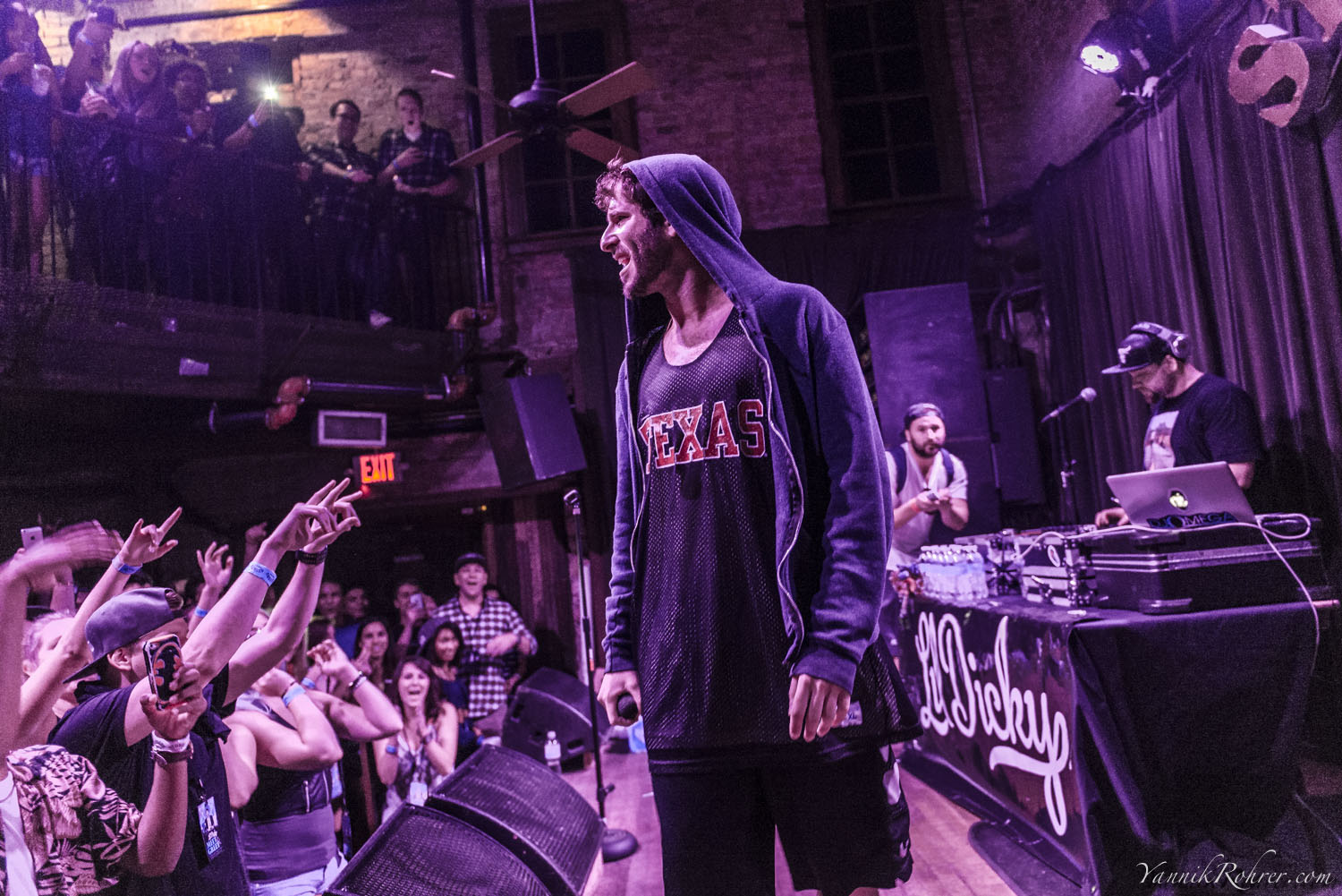 Lil Dicky live in September 2014 at Stubbs, Austin Texas